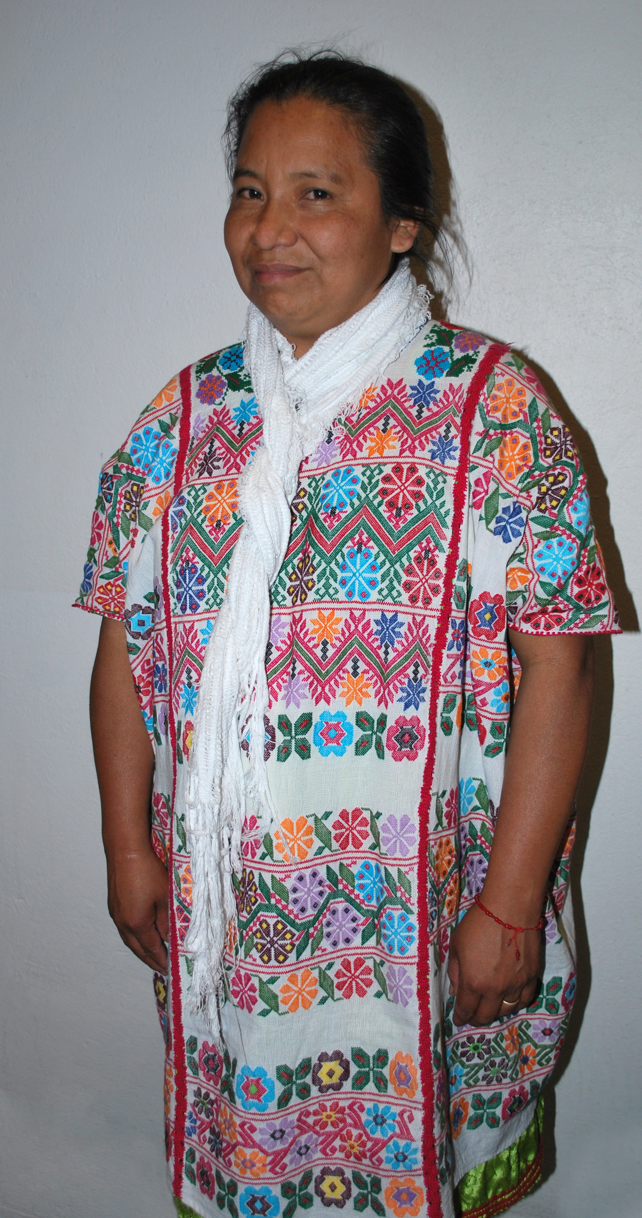 Juana Santana of Xochixistlahuaca, Guerrero at the sixth anniversary celebration of the Museo de Arte Popular in Mexico City.